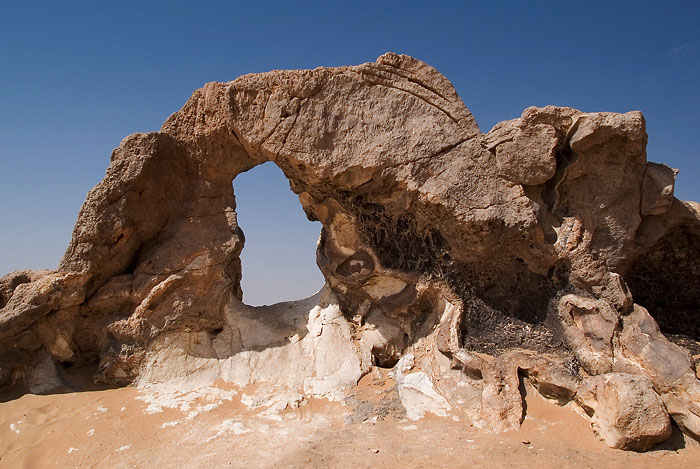 Crystal rock with a rock hole, between Farafra and Bahriya depressions, Libyan Desert, Egypt